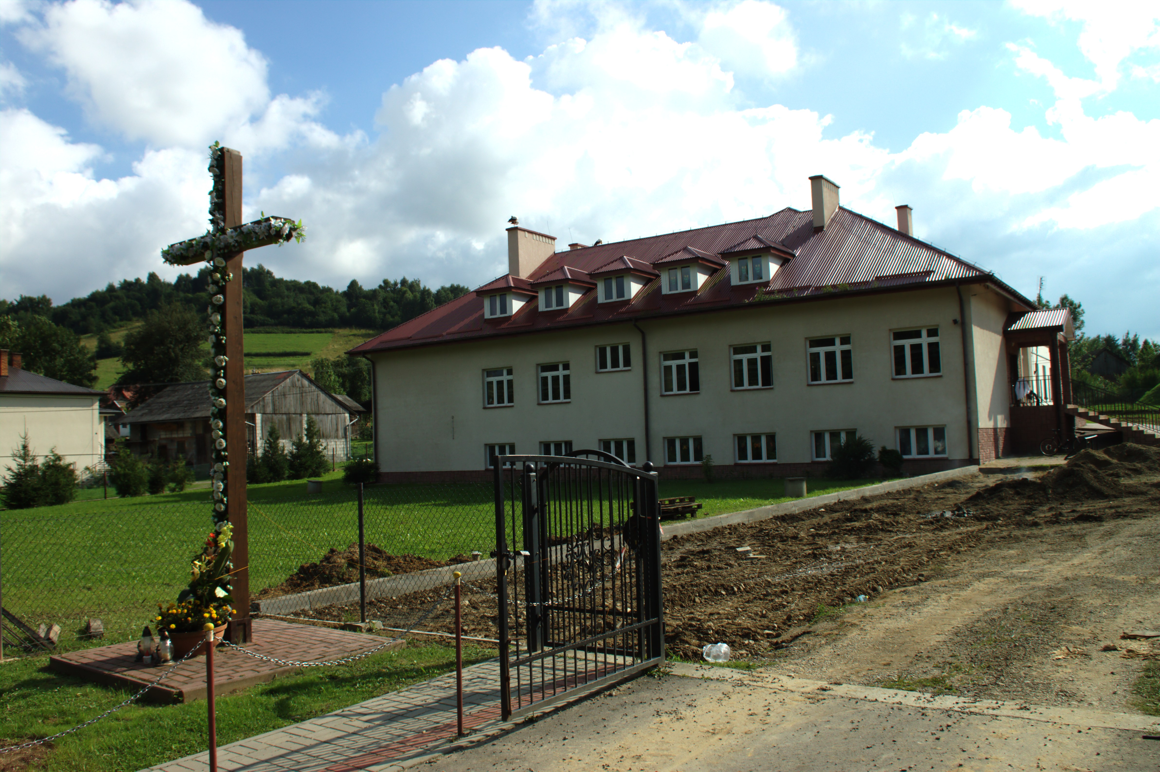 Elementary school in Dąbrówka Starzeńska, Podkarpackie voivodeship, Poland